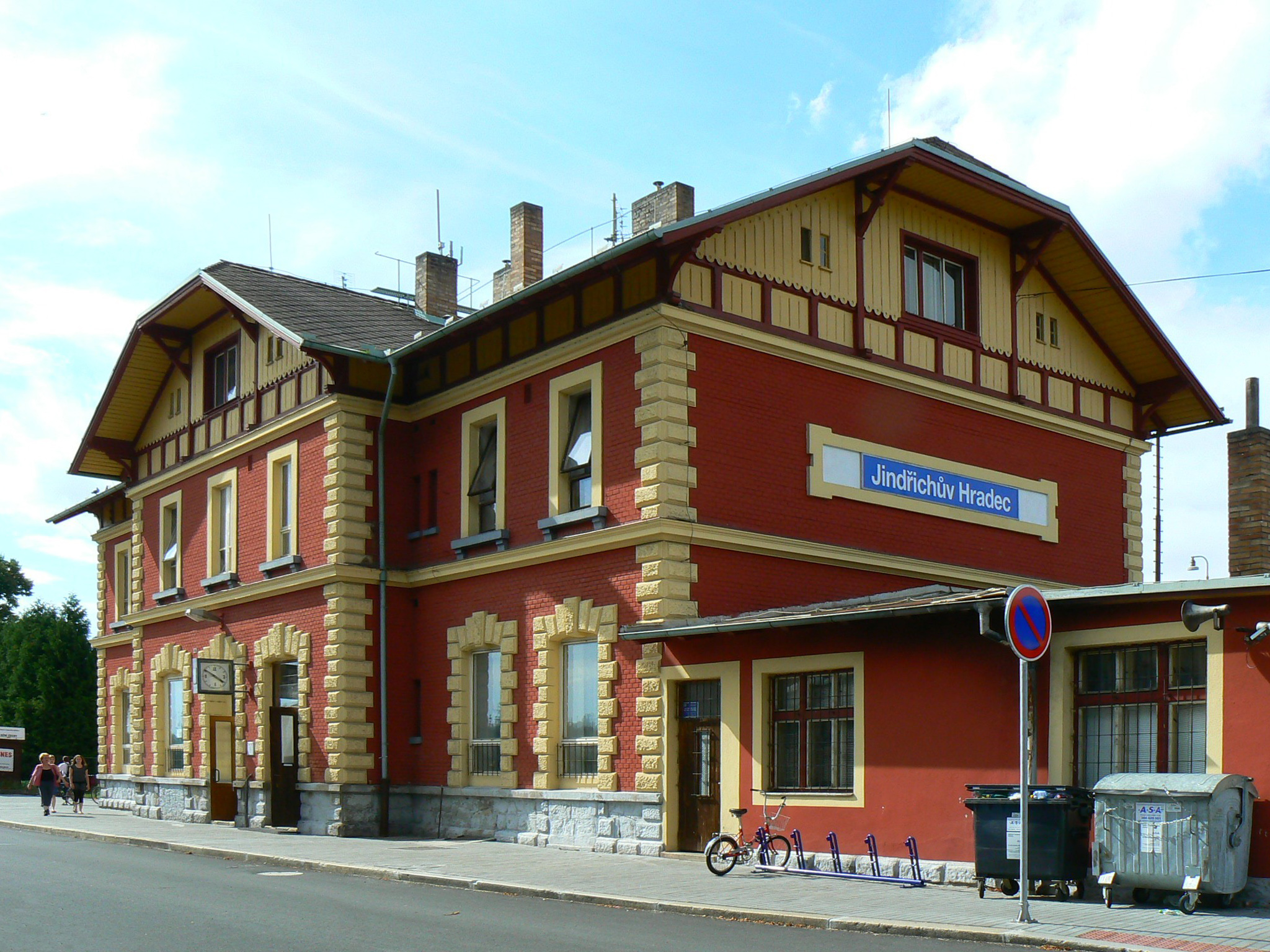 Railway station building in Jindřichův Hradec, Czech Republic